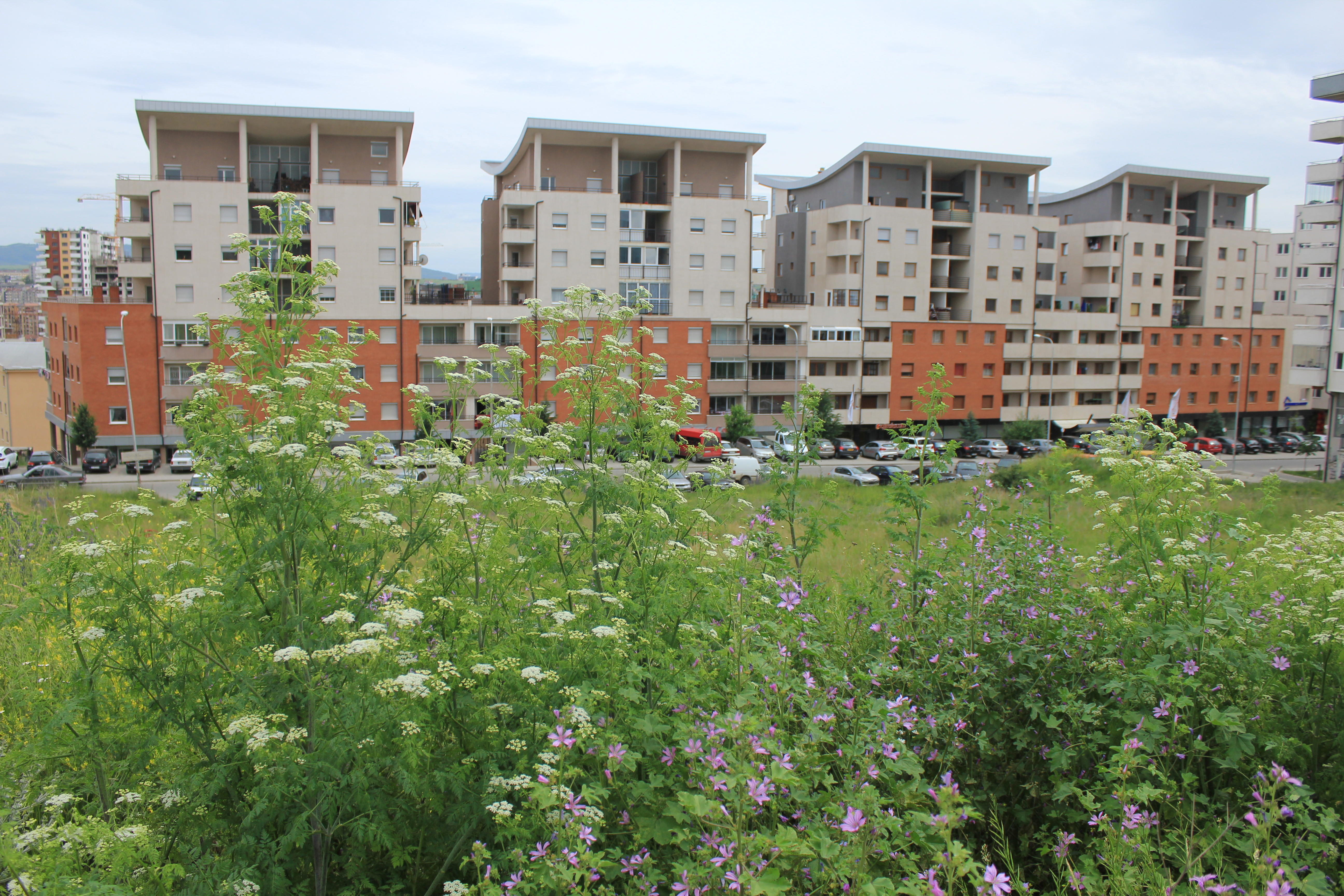 Conium maculatum growing alongside the road in Prishtina, Kosovo